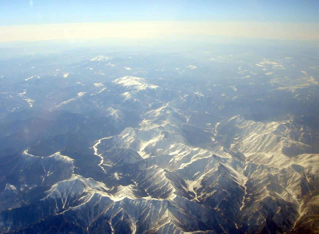 Southern part of Hida Mountains birdview